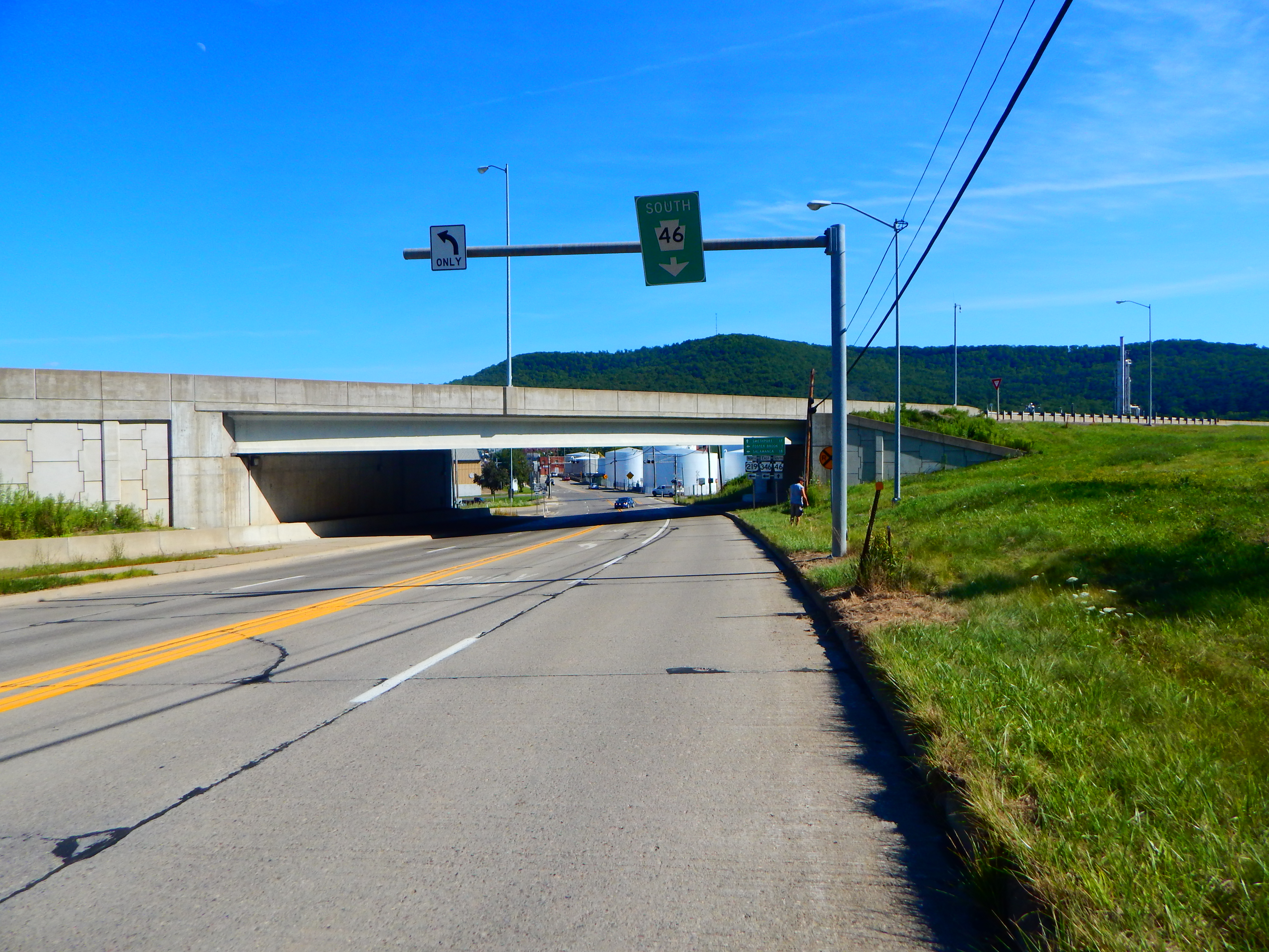 Route 46 heading south in Bradford, Pennsylvania.